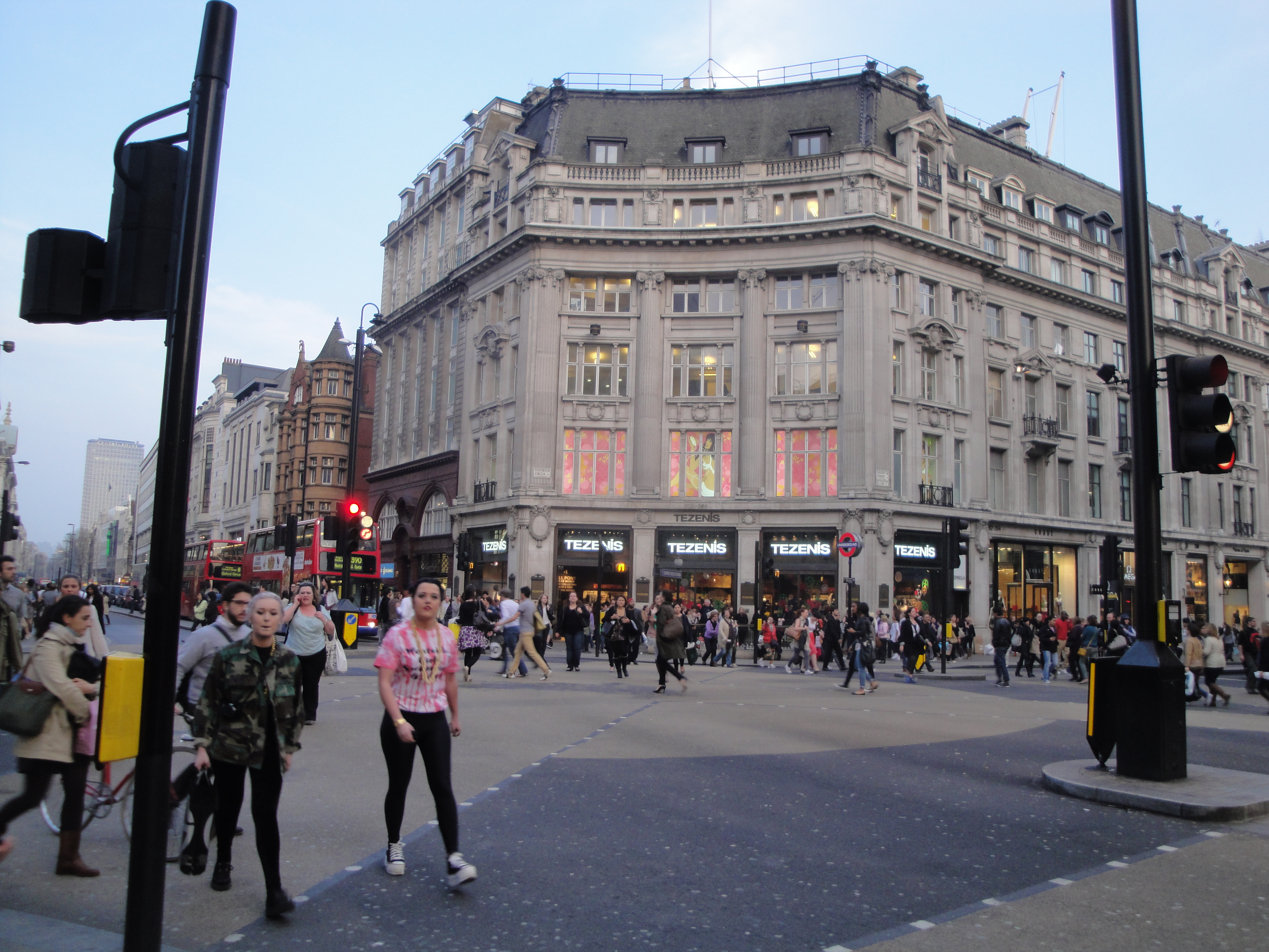 Oxford Circus, London, seen busy with people in March 2012.